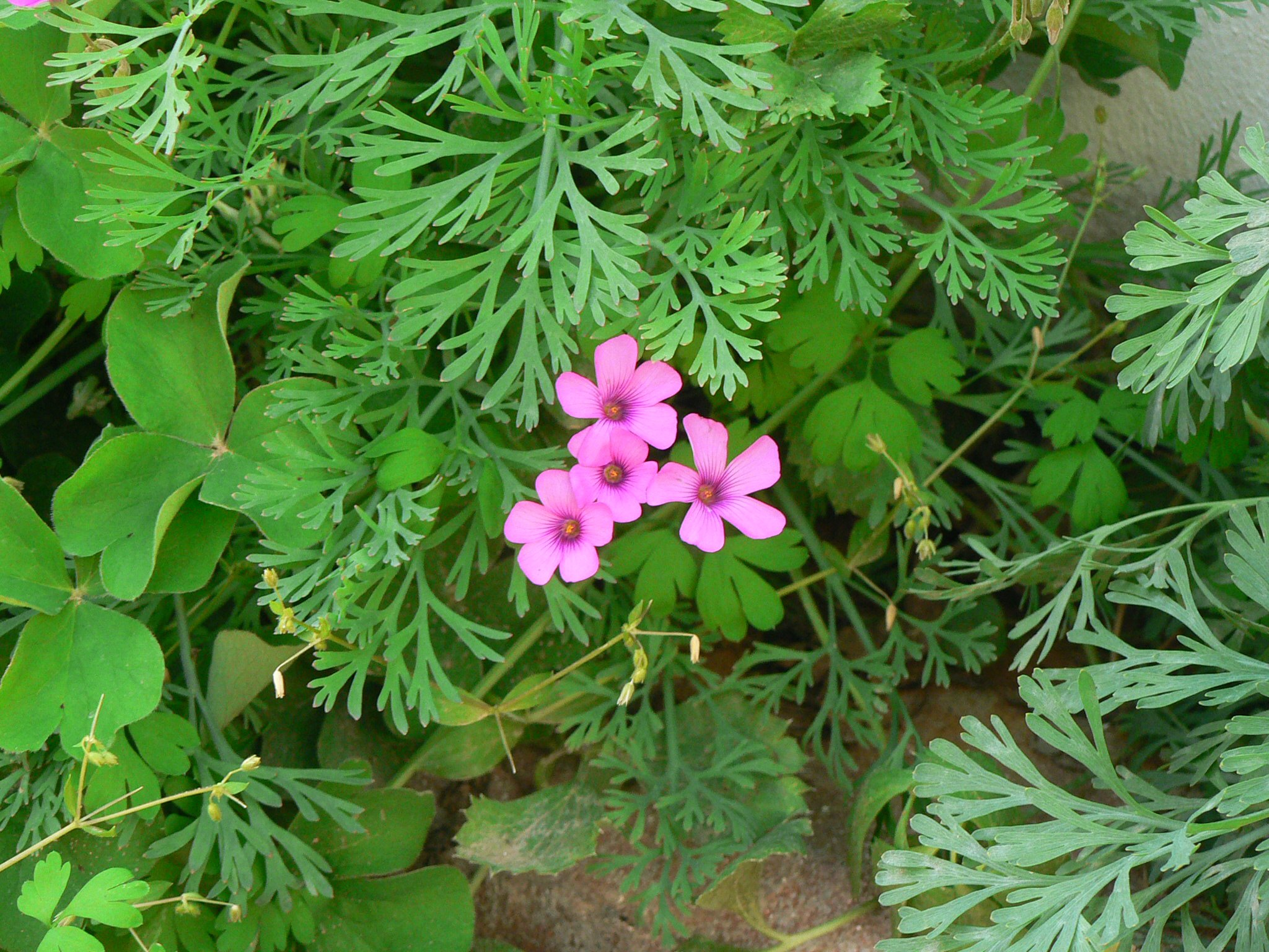 Oxalis corymbosa חמציץ סגול Author: MathKnight